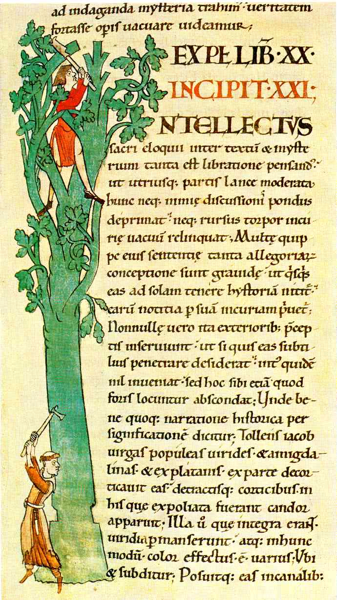 folio 41 of the MS. 173 of book 21 of the Moralia in Job of Stephen Harding produced at the Cîteaux scriptorium and finished in 1111. Ms. 173 is one of the four volumes in the Dijon municipal library that form this manuscript. The others are Ms. 168, 169 and 170.